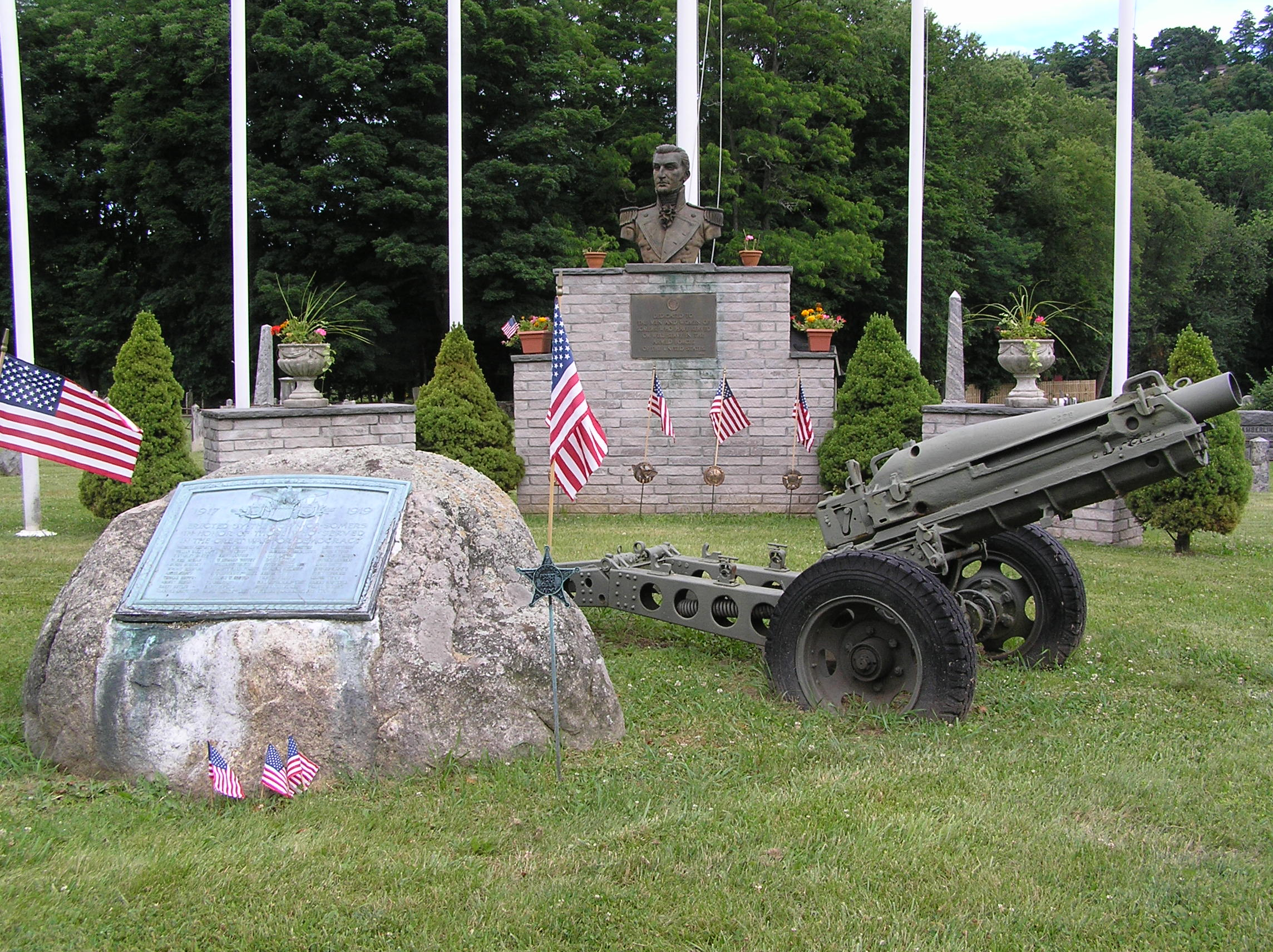 I took this photograph of Ivandell Cemetery in Somers, New York. GNU Free Documentation License